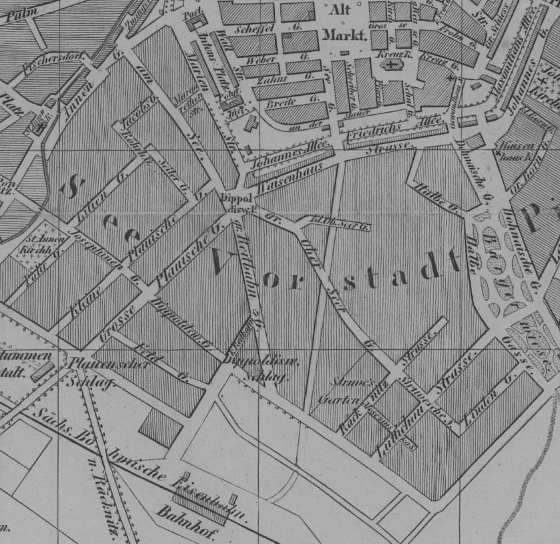 map detail showing location of station "Böhmischer Bahnhof" in Dresden of 1851